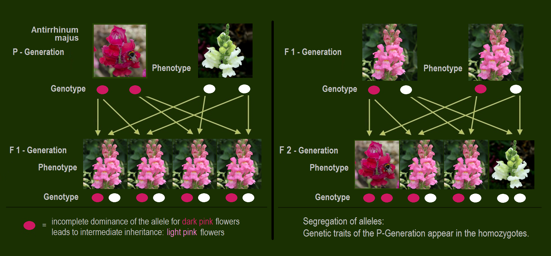 Intermediate inheritance of flower colour in Antirrhinum majus due to incomplete dominance. Source: Campbell and Reece: Biologie. Spektrum-Verlag Heidelberg-Berlin 2003, ISBN 3-8274-1352-4, page 302